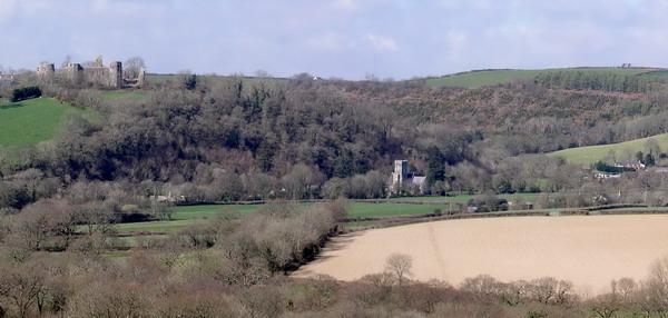 Llawhaden Church and Castle.